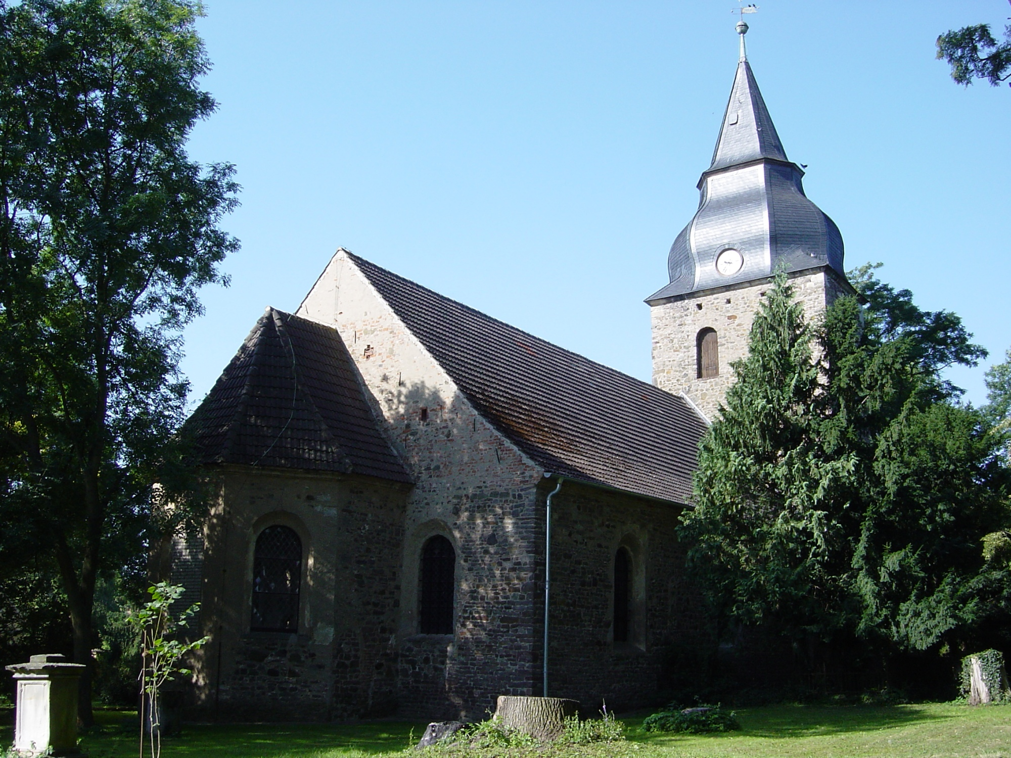 Protestant church St. Nicolai in Eichenbarleben, Germany